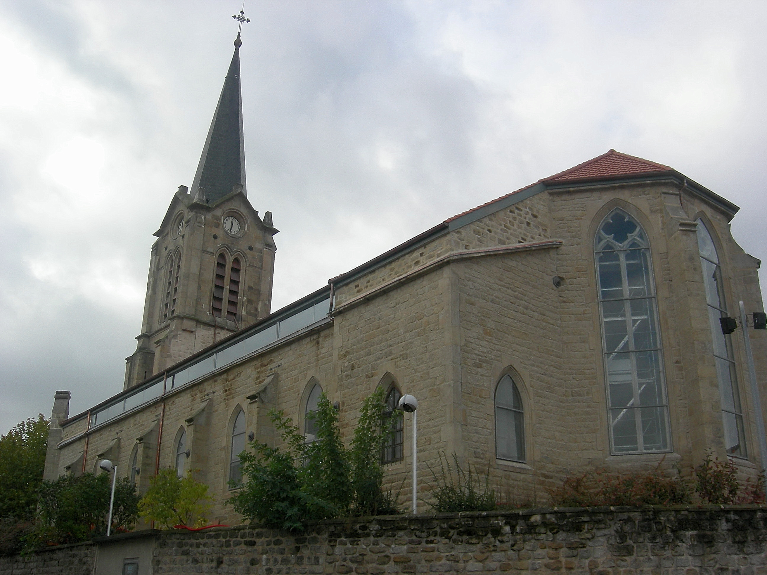 Church from villars